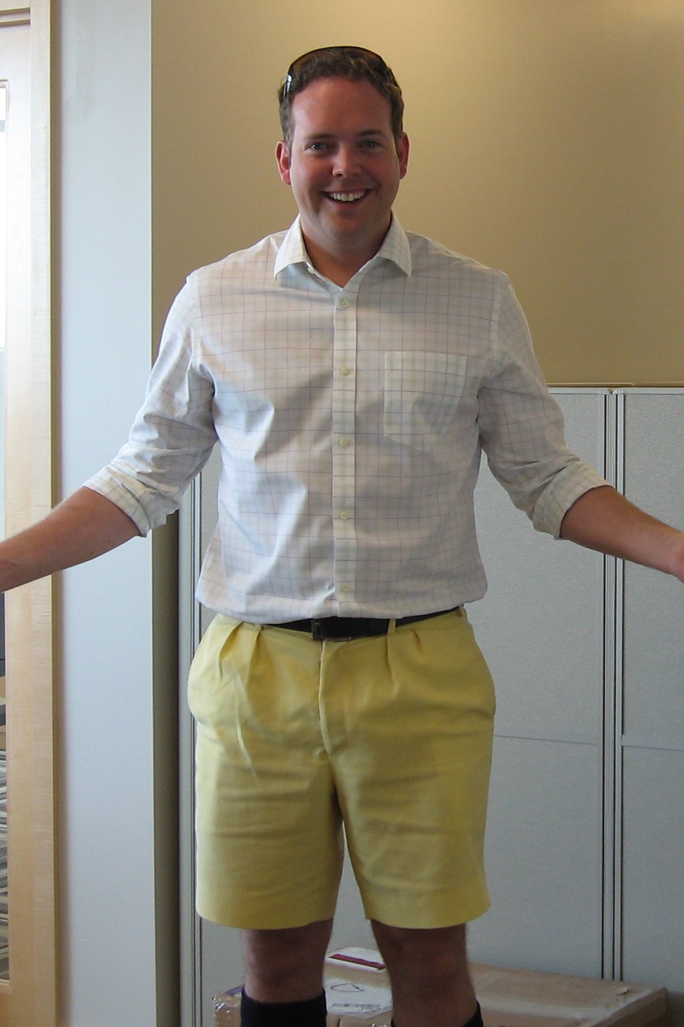 A man wearing yellow Bermuda shorts with a white shirt